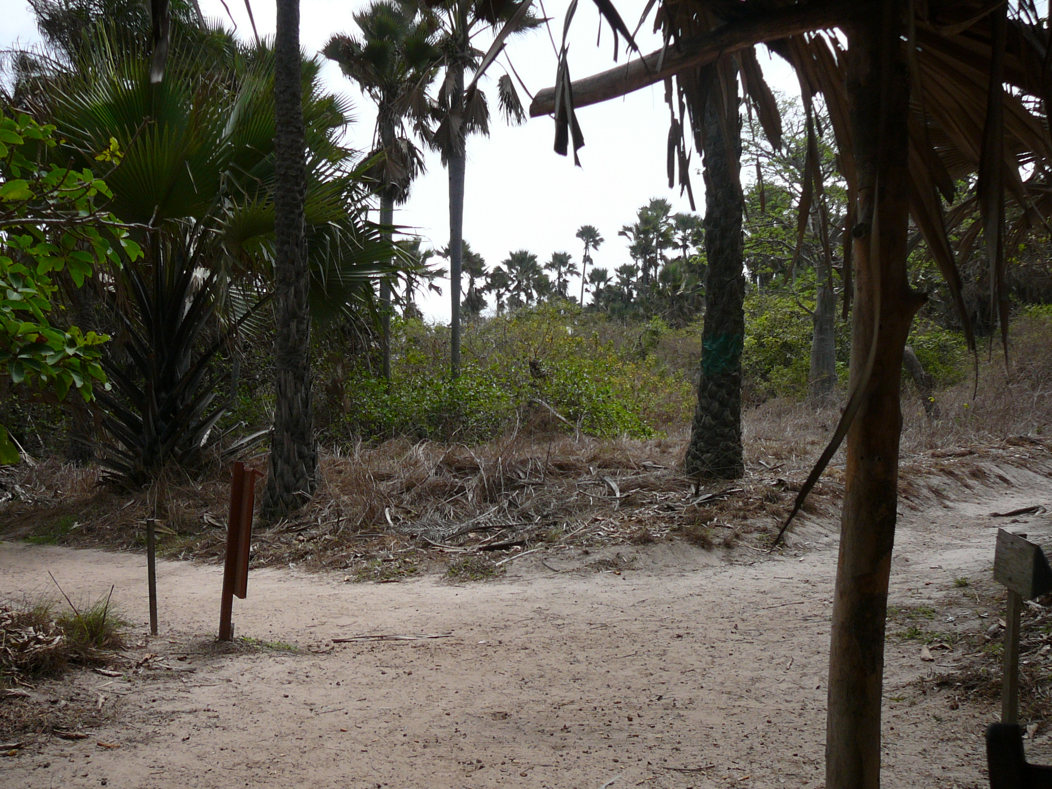 African Palmyra Palm